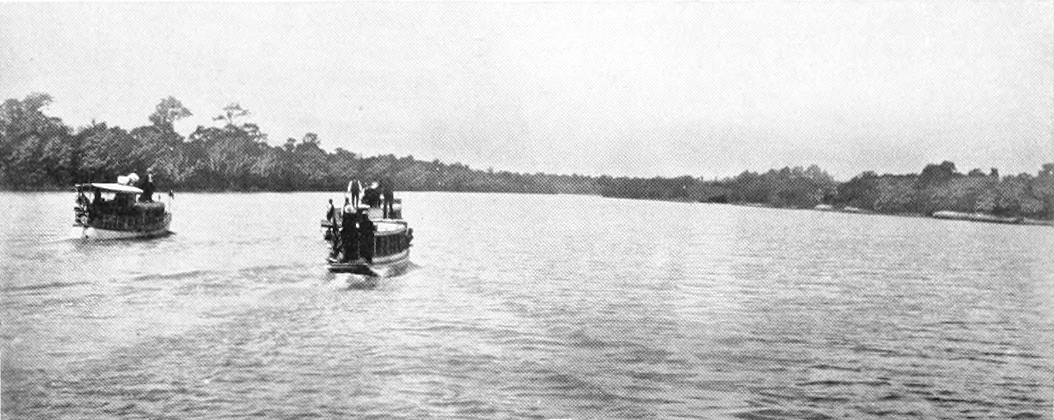 Houston Ship Channel, 1913 - From "Houston: Where Seventeen Railroads Meet the Sea" Page 7/40 "Houston Ship Channel."